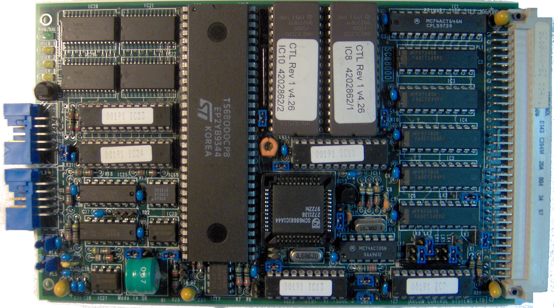 STEbus 68000 CPU on 100x160mm Eurocard, designed by Arcom Control Systems.